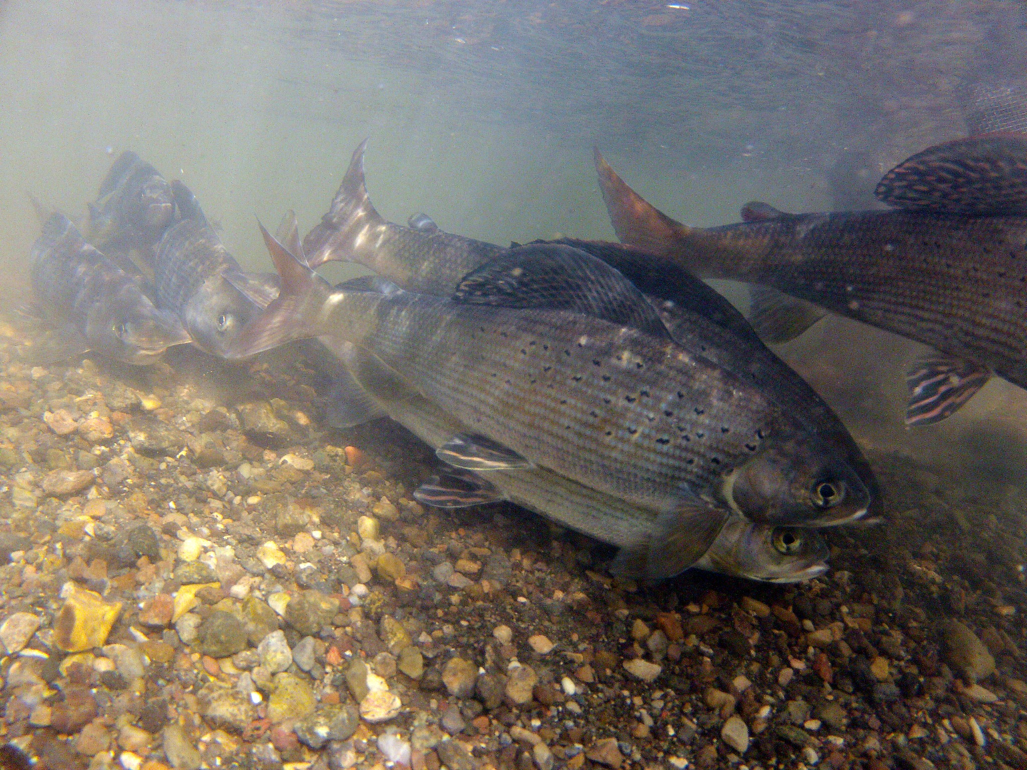 Unlike mammals, most fish reproduce by fertilizing eggs outside of their bodies. This act is commonly referred to as spawning. When fish migrate for spawning purposes, biologist refer to this as a "spawning run". When spring finally arrives in Montana, Arctic Grayling initiate just such a "run". This consistent, mostly predictable, behavior affords Montana Fish and Wildlife Conservation Office personnel an opportunity to monitor and assess Arctic Grayling trends in collaboration with Red Rock Lakes National Wildlife Refuge. Photo: Michael (Josh) Melton/USFWS